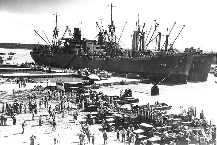 USS Aquarius (AKA-16) in the Russell Islands, alongside a floating, demountable dock. Aquarius was a U.S. Coast Guard-manned assault transport and unloaded U.S. Marines transferred from New Britain to the Russell Islands for a rest period. Aquarius had carried elements of the U.S. Army's 40th Division to Cape Gloucester, New Britain, and returned the 1st Marine Division to the Russell Islands between 20 April and 28 April 1944. USS Titania (AKA-13) is next to Aquarius.